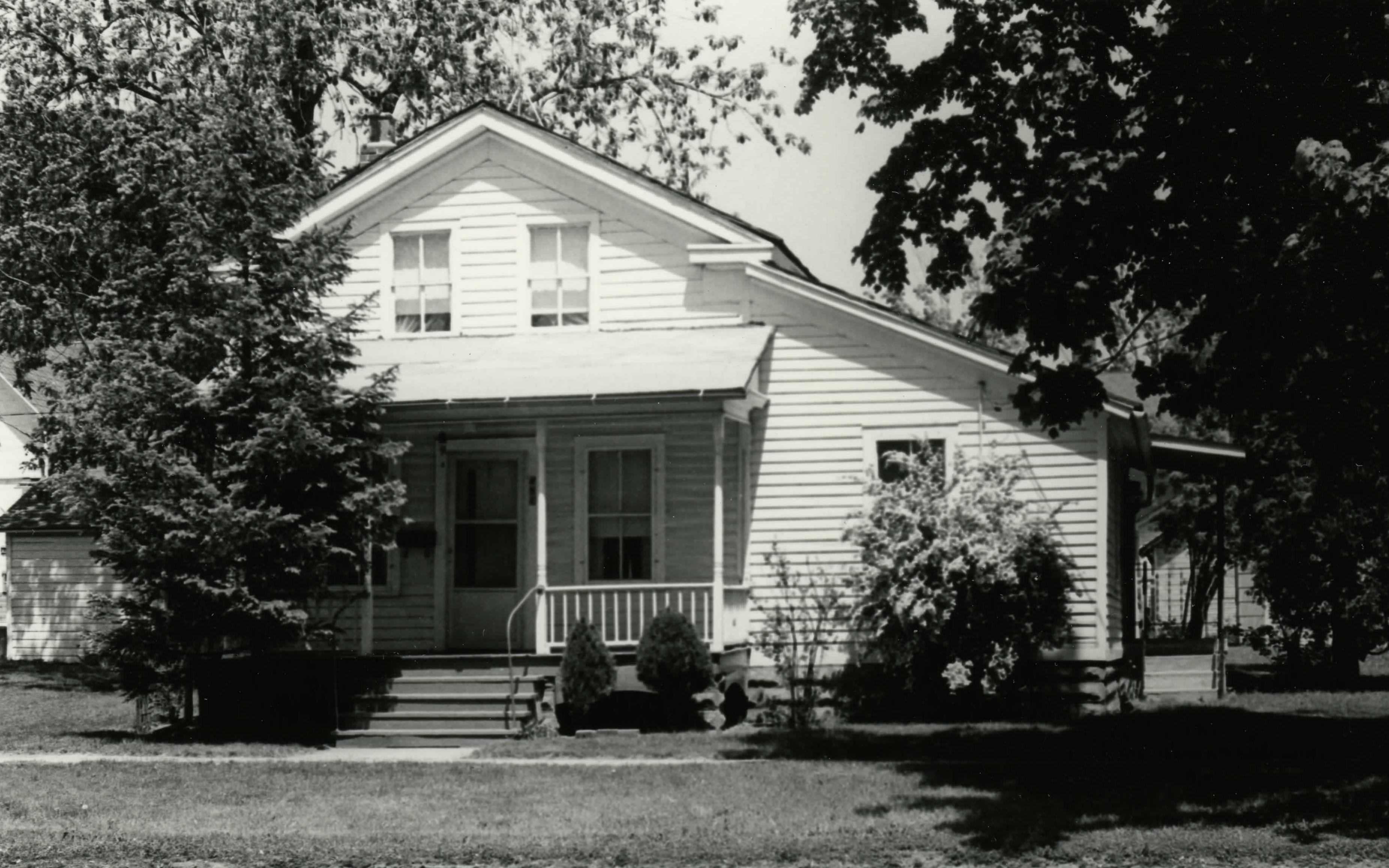 Daniel Gould Residence Owosso MI